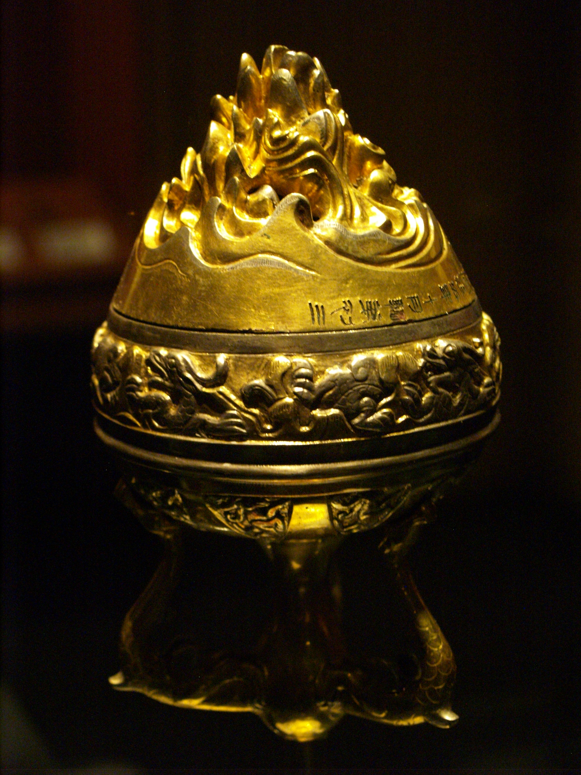 An incense burner given by the Emperor Wu of Han to Wei Qing as an imperial gift, Shaanxi History Museum Info provided by the museum shown below: Bronze Bamboo-joint-shaped Censer with Gilded Gold and Silver Western Han Dynasty (206 BC - AD 8) Excavated from No. 1 satellite vault of No. 1 anonymous tomb, Maolin Mausoleum, Xingping City The incense burner consists of a brazier, a stem and a pedestal, the three parts are riveted together. The whole surface is plated with gold and silver. It is one of the best-known metalwork objects of this period and a consummate piece of workmanship. Two inscriptions, on the base of the lid and on the edge of the foot, identify and describe the object, giving dates of manufacture and of delivery, probably in 137 and 136 BC. The inscriptions associate it with the family of Princess Yangxin, the elder sister of emperor Wudi (r. 141-87 BC), probably was the reward Emperor Wudi bestowed upon his sister and her husband, the chief General Wei Qing.